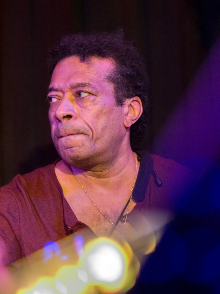 Warren Benbow, Jazz drummer; Picture taken in Jazz Club Unterfahrt, Munich/Bavaria